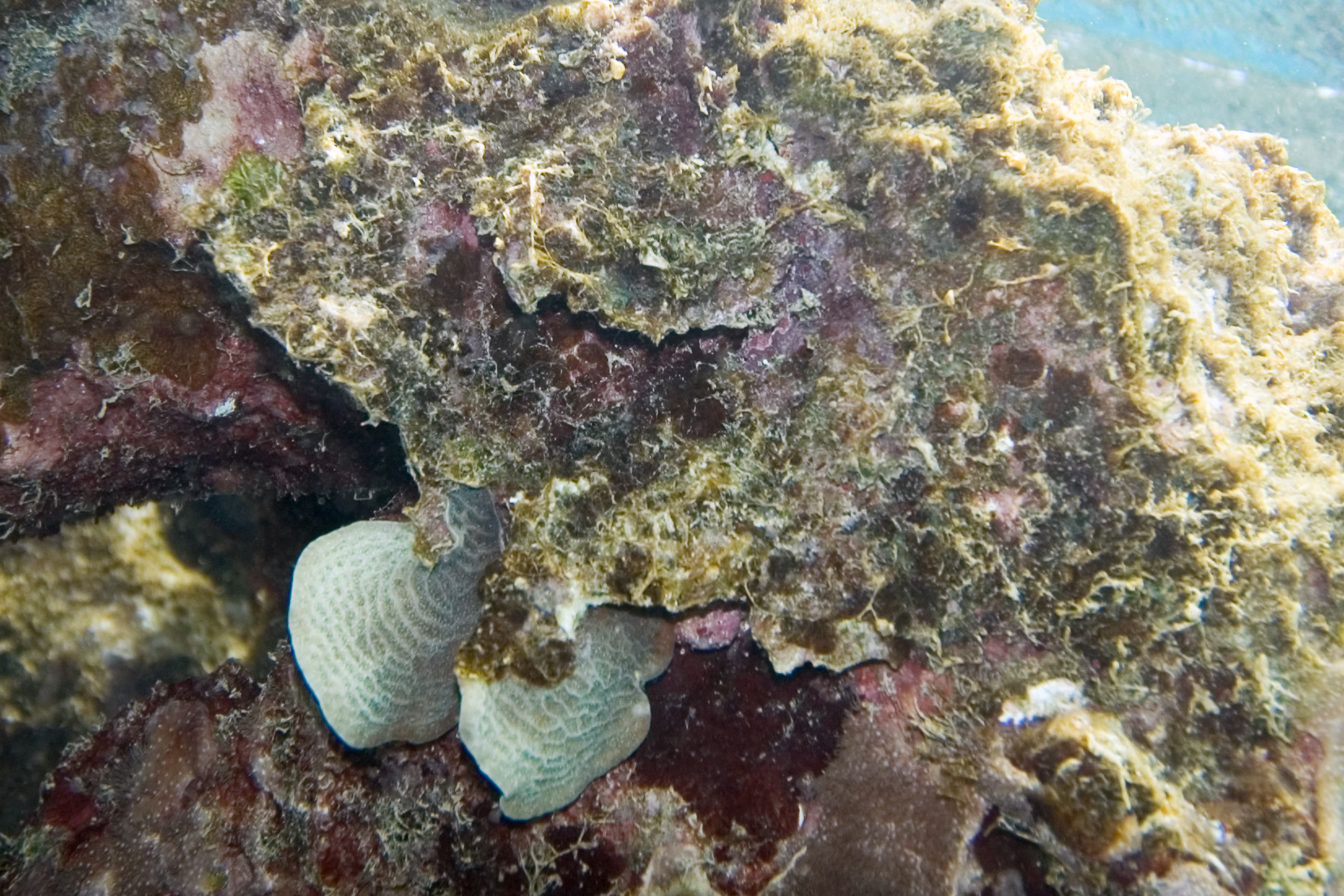 the identification - of the coral that look like fungi - is our best guess